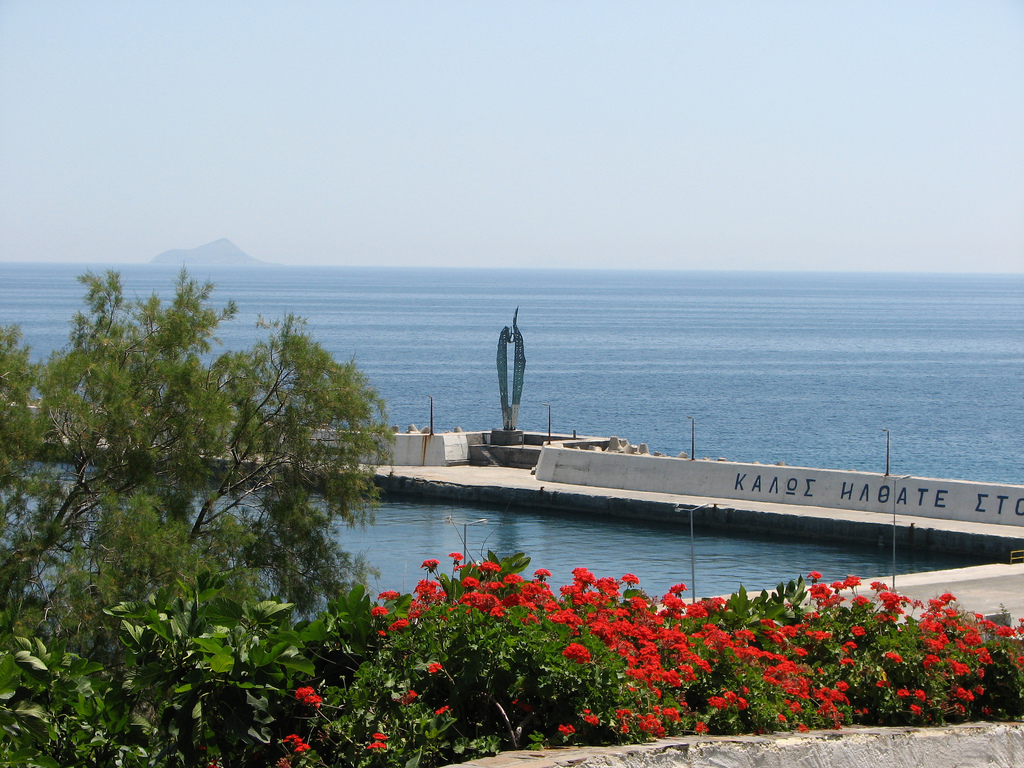 Agios Kirykos (Greek: Άγιος Κήρυκος) is a municipality on the island of Icaria, Samos Prefecture, Greece